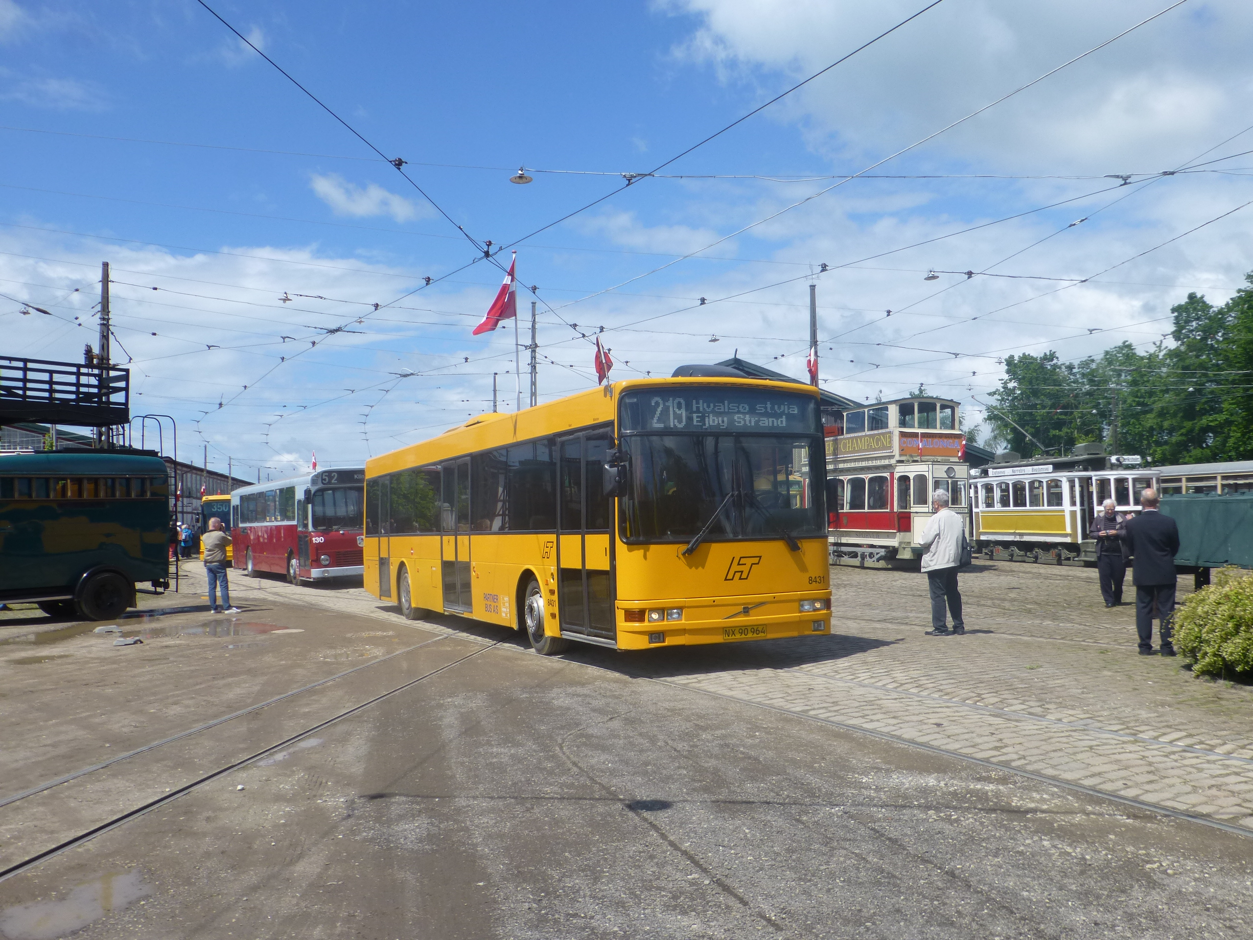 Tram parade at Sporvejsmuseet Skjoldenæsholm due to celebrating of 50 years of the Danish tramway society, Sporvejshistorisk Selskab. Bus from North Zealand, Partnerbus 8431 from 1994.